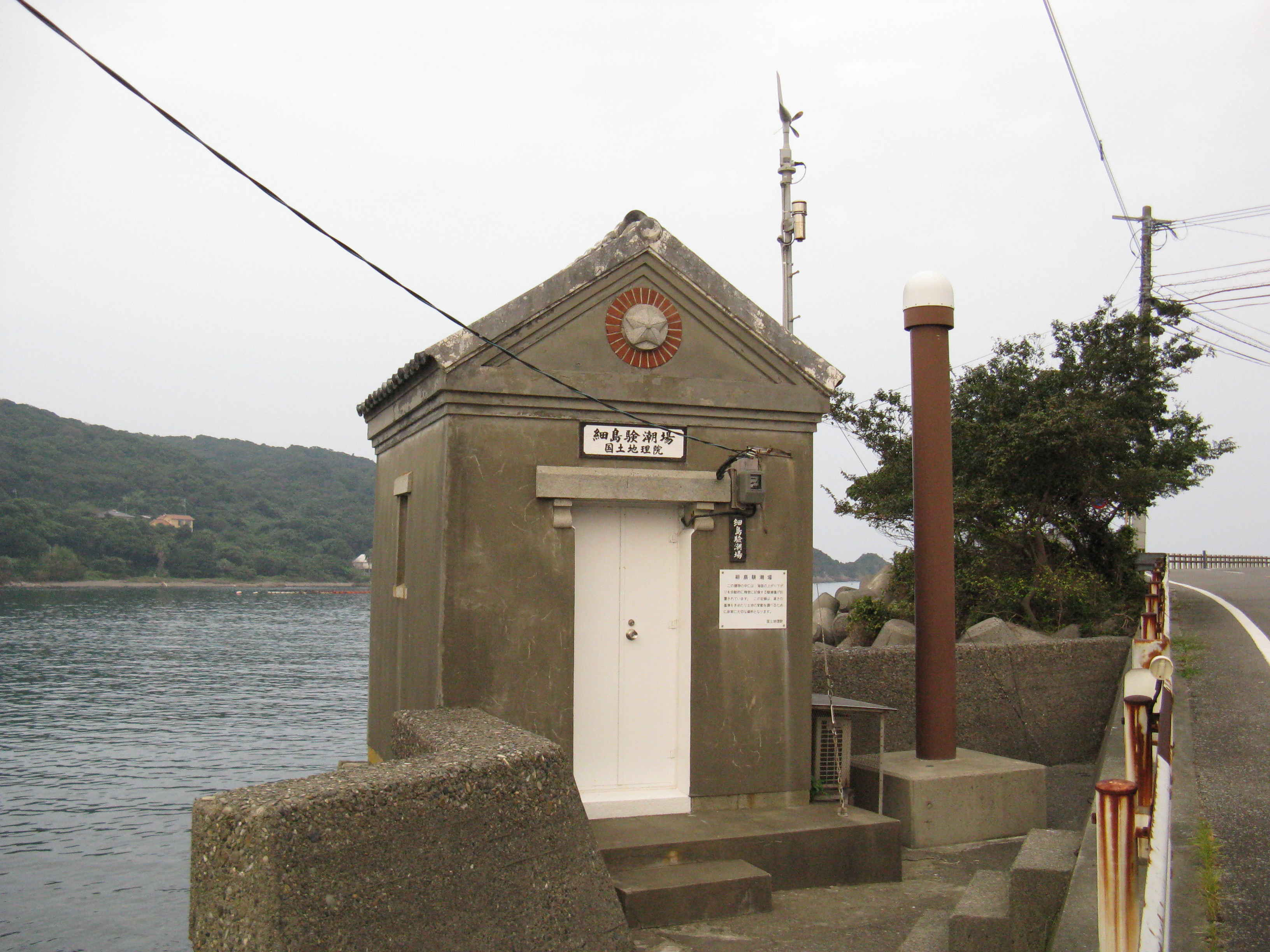 Hosojima Tide Station